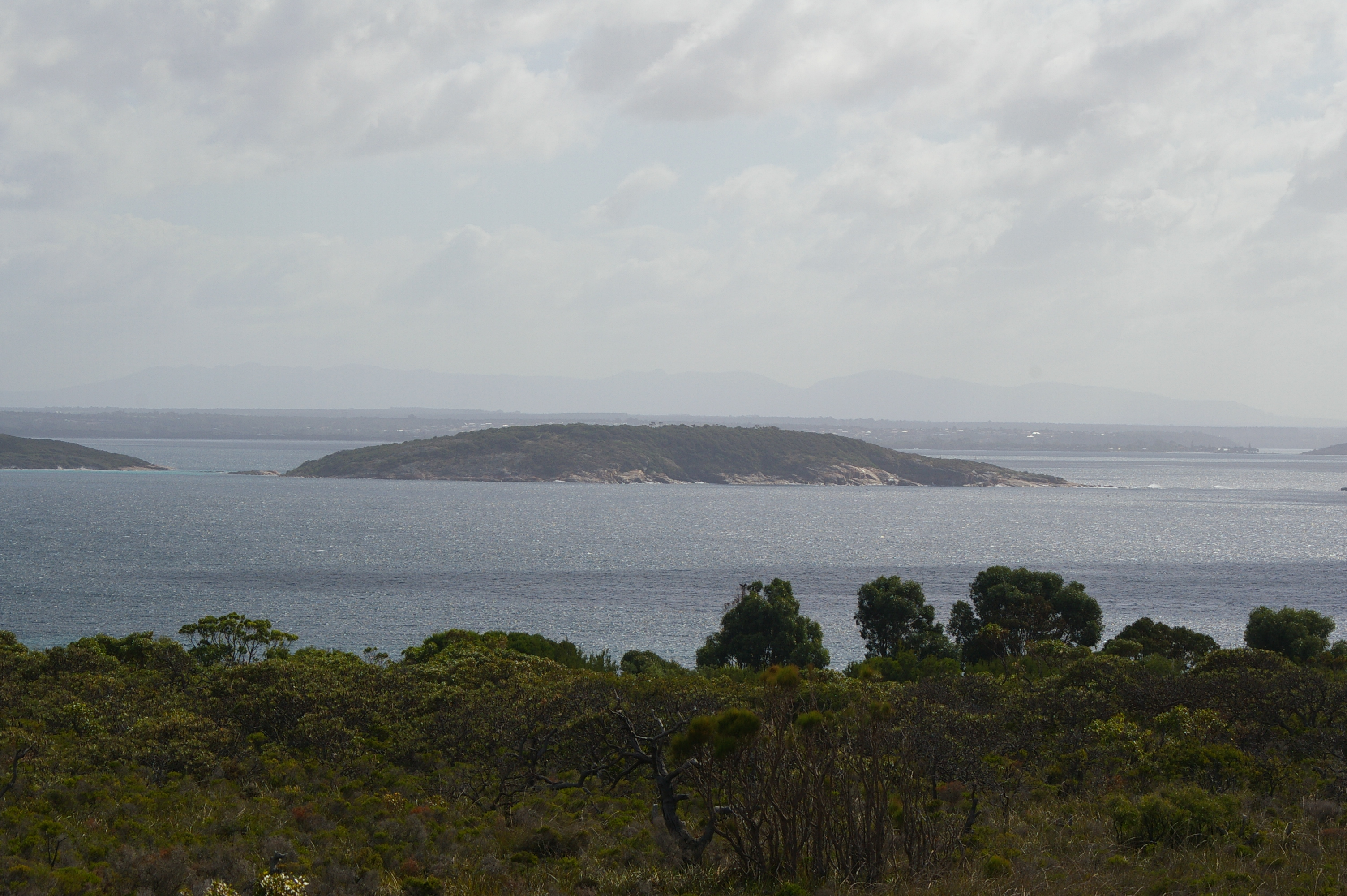 Mistaken Island from Behind Goode Beach looking North, Vancouver Peninsula is nearest land to the island